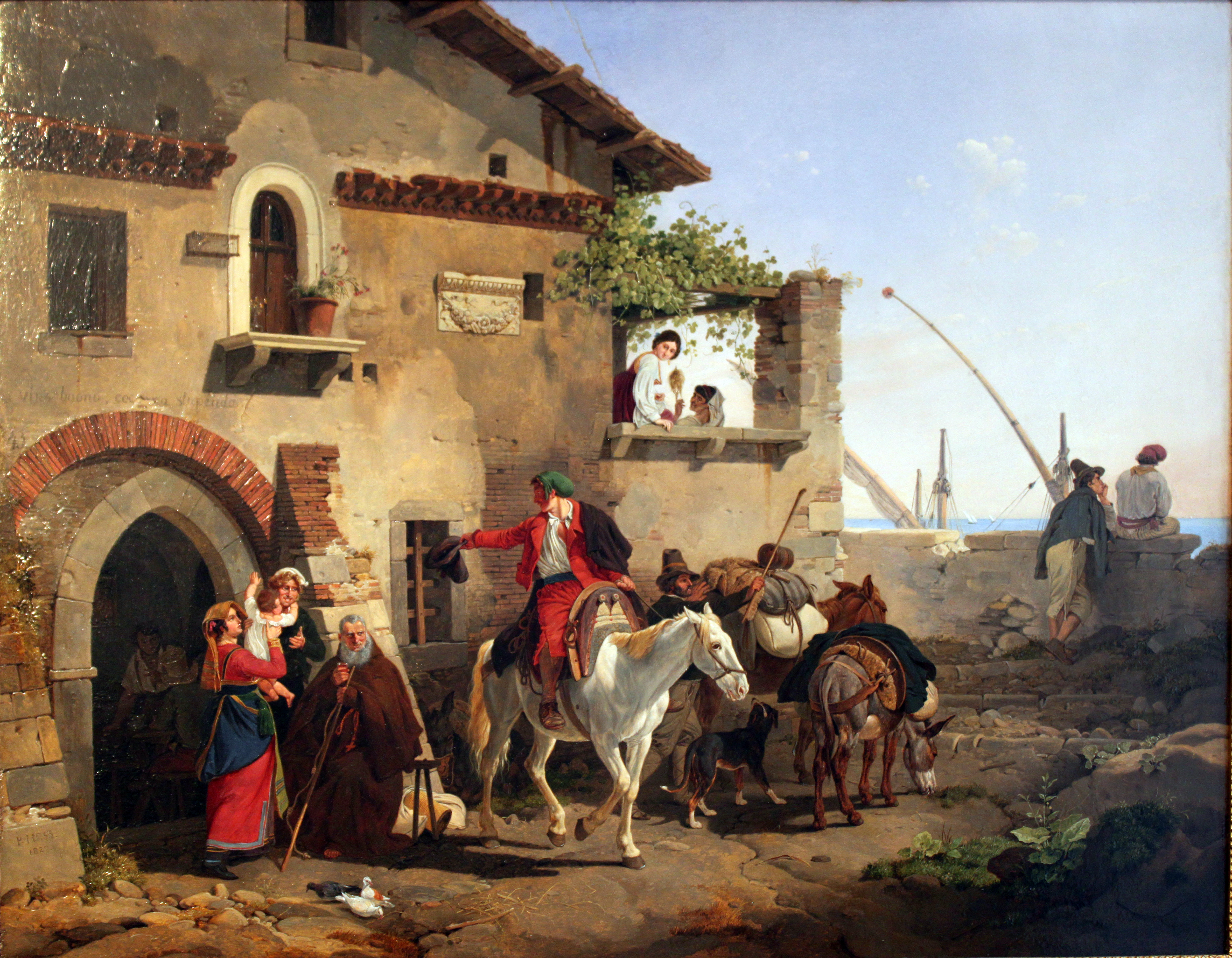 Farewell to the Osteria